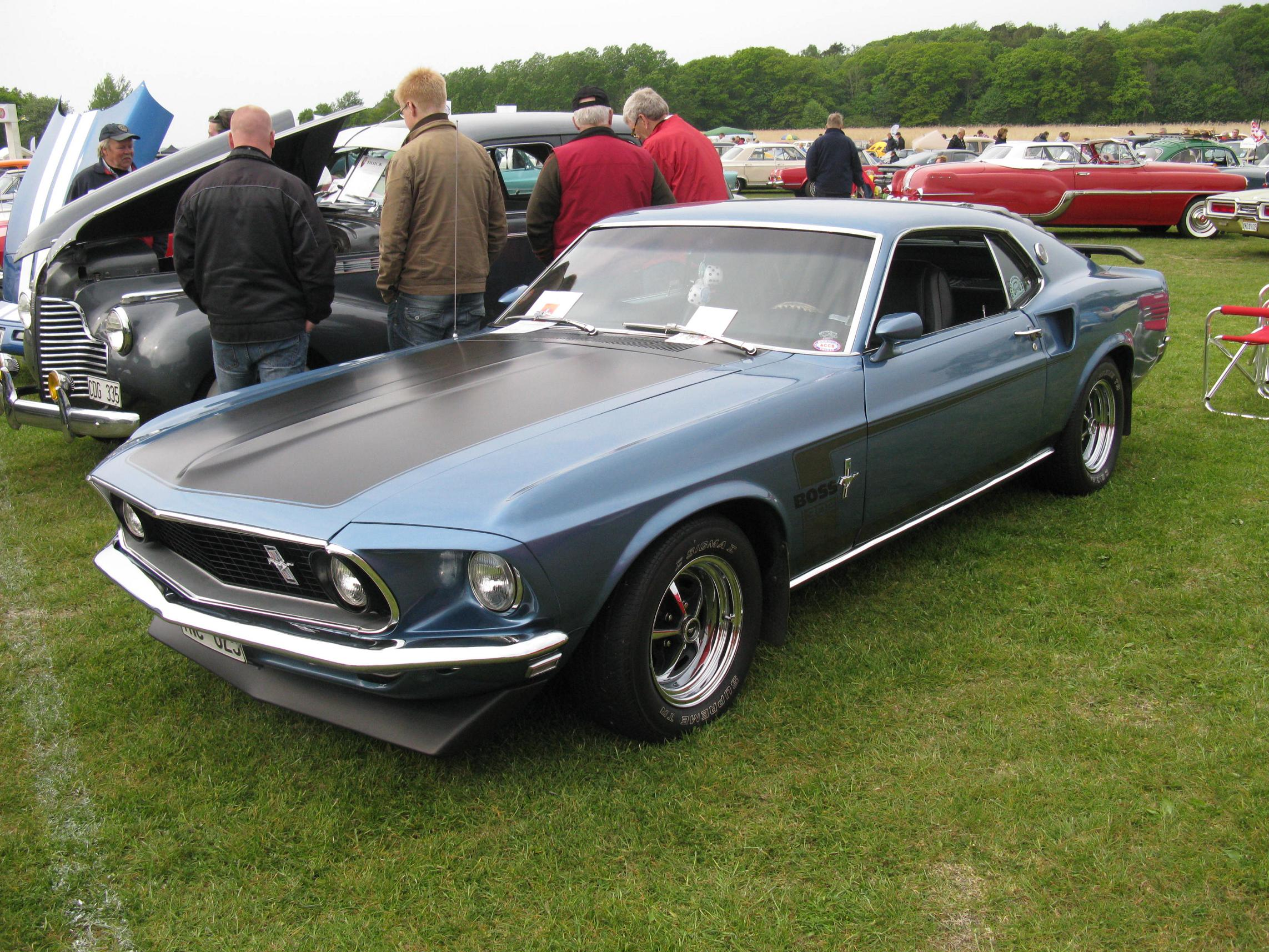 Ford Mustang Boss 302 1969